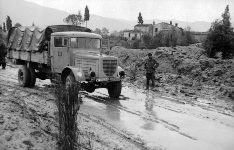 Information added by Wikimedia users.Lkw-Typ: Büssing-NAG 4500 A (Allrad)